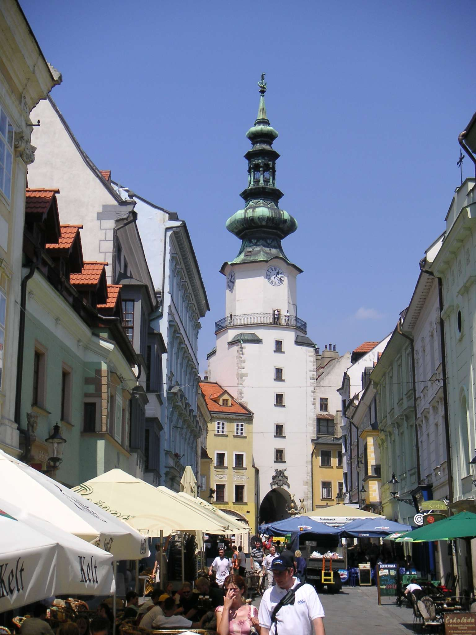 City of Bratislava - Michael's gate seen from Michael's Street